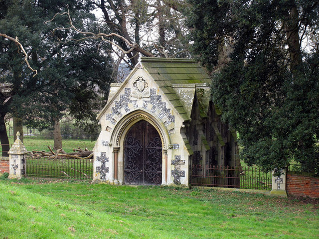 Coke Mausoleum on the edge of St Withburga's parish churchyard, Holkham, Norfolk, seen from the northeast